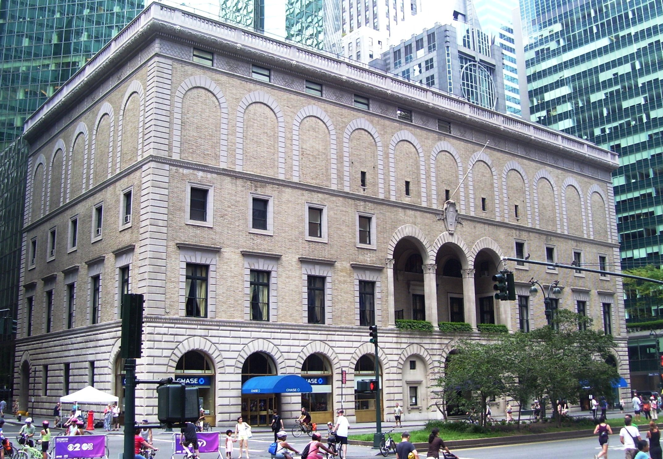 The Racquet and Tennis Club at 370 Park Avenue between East 52nd and East 53rd Streets in Midtown Manhattan, New York City was built in 1918 and was designed by William S. Richardson of McKim, Mead & White in the FItalian Renaissance style. The private clubhouse has racquetball courts and one of the few court tennis courts which survive. (Sources: AIA Guide to NYC (5th ed.), Guide to NYC Landmarks (4th ed.))